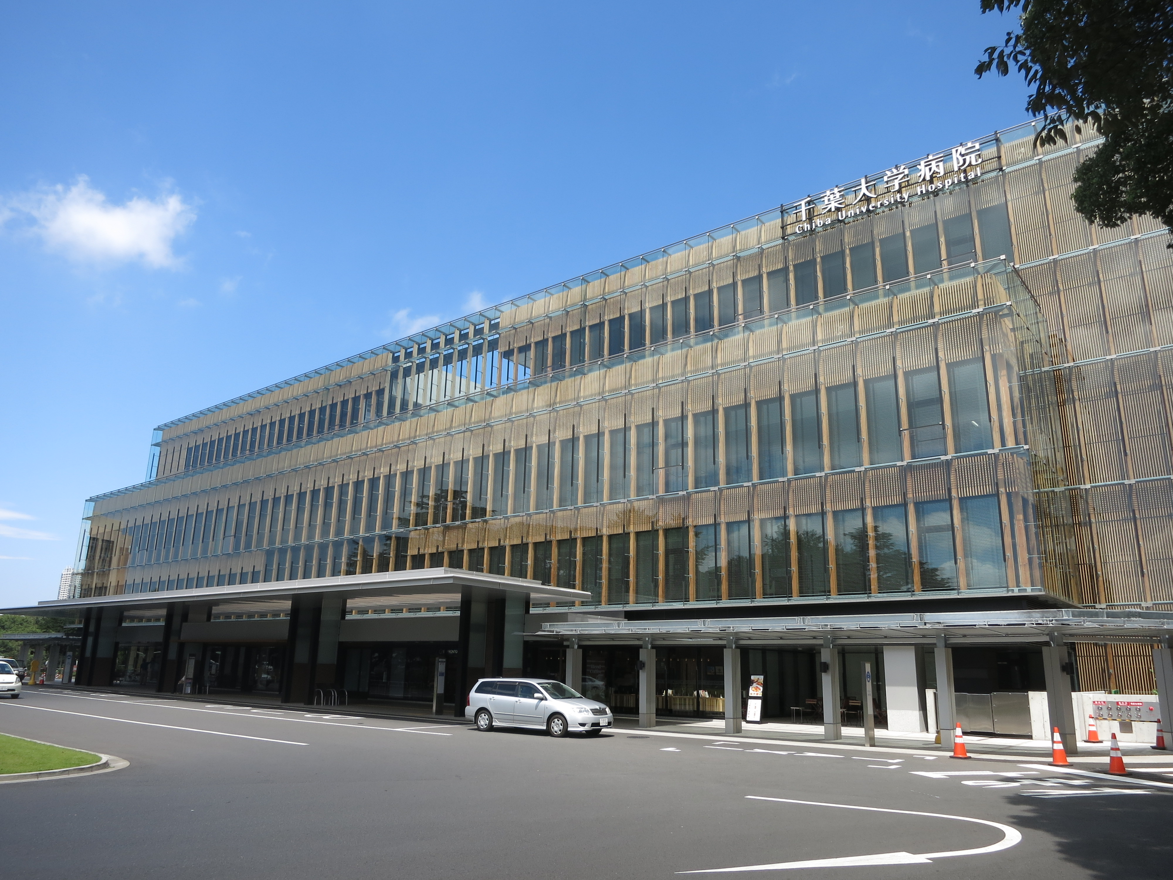 Chiba_University_Hospital